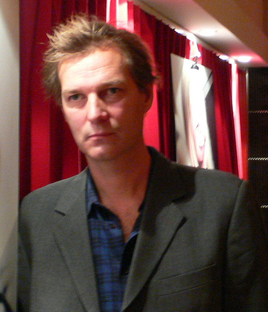 Joppe Pihlgren on Kunskapens dag, October 7 2008, in Stockholm.